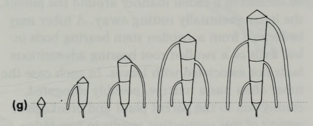 AD Bell (1991) Plant Form. Fig. 169. Examples of establishment growth. a) production of stolons from parent plant; b) production of successively larger, but short-lived sympodial units (compare h); c) increase in width of successive internodes; d) increase in size of successive sympodial units with alternating growth direction; e) increase in width due to cambial activity; f) as 'c' with initial downward growth; g) initial vertical growth supported by prop roots; h) increase in size and depth of successive long-lived sympodial units; i) increase in size of successive sympodial units; j) Oxalis hirta, contraction of radicle with elongation of foliage leaf petiole resulting in descent of its subtended bud (Bu) (Davey 1946); k) production of single downward growing side shoot. This image is part of a set.